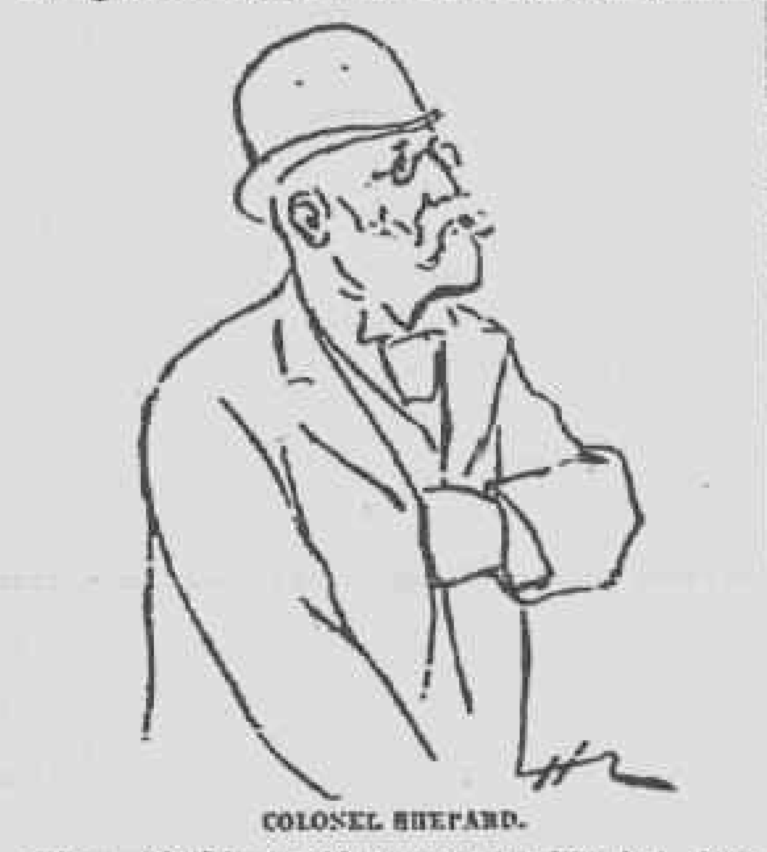 Elliott Fitch Shepard in 1892.